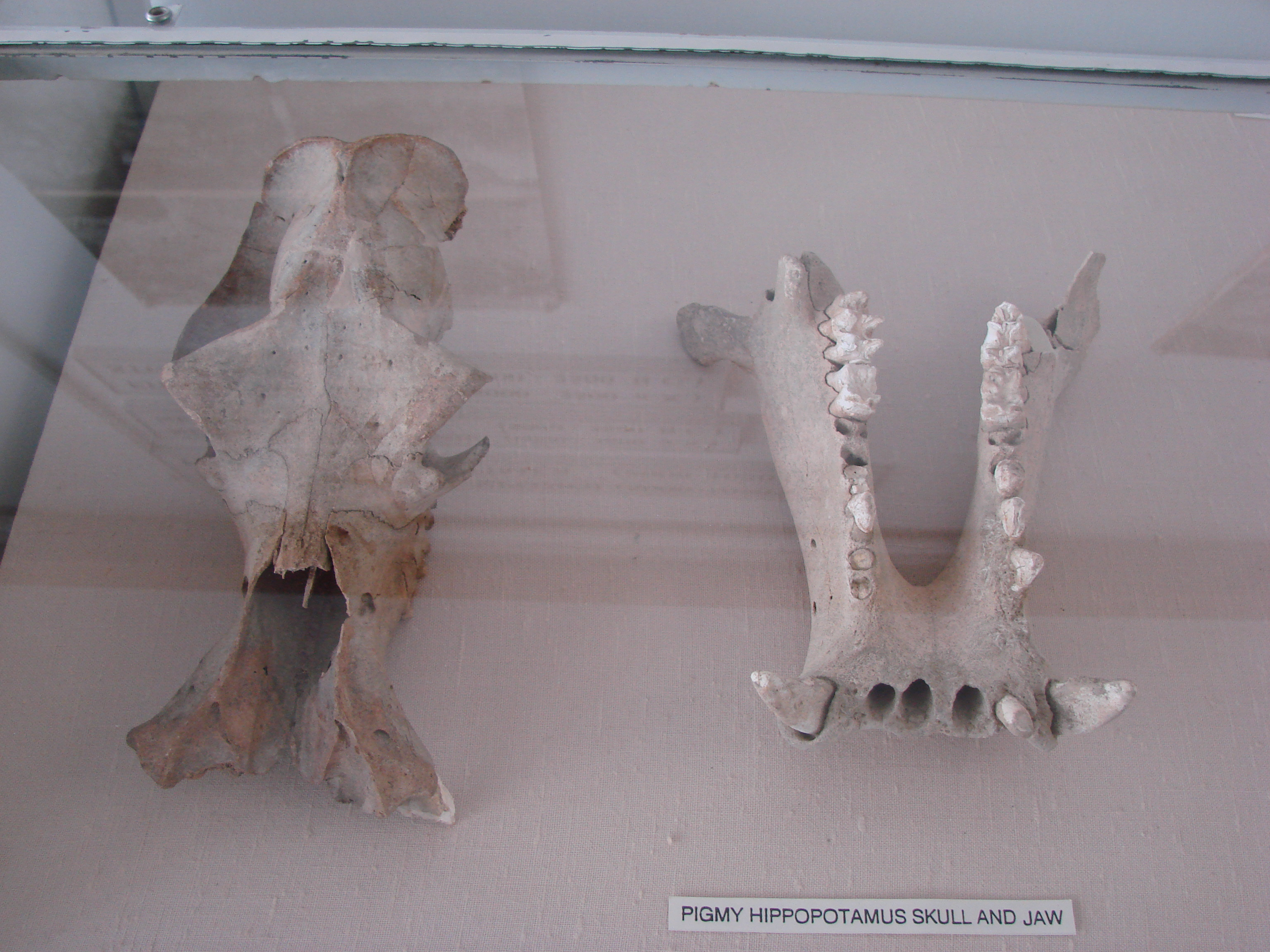 Cypriot pygmy hippopotamus (Hippopotamus minor) skull and jaw, Limassol Archeological Museum.